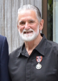 Wade Doak, after being presented with the Queen's Service Medal, for services to marine conservation, on 16 October 2014, at his home in Ngunguru.